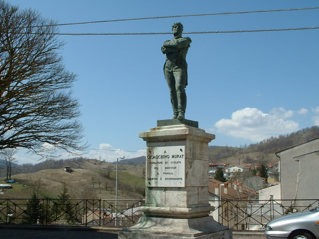 The statue of Gioacchino Murat in Ateleta